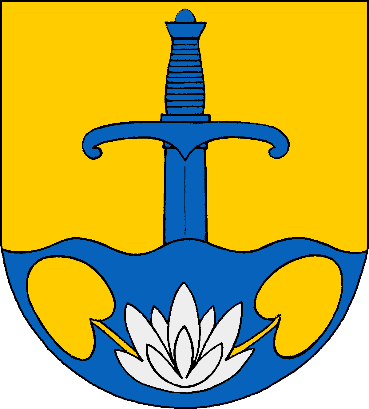 Coat of arms of the municipality Salem in Schleswig-Holstein, Germany.